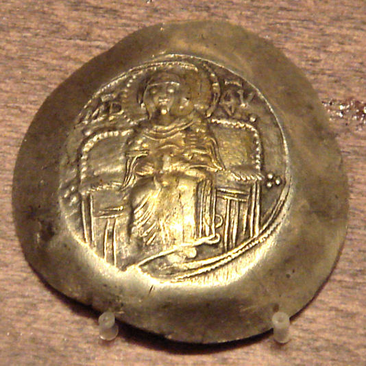 Electrum coin of Isaac II Angelos